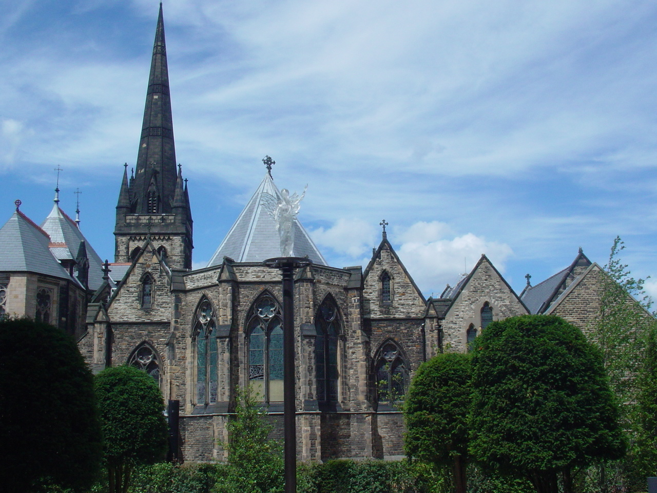 Church of Saint Francis Xavier, Liverpool as seen from the Angel Field Renaissance Garden.